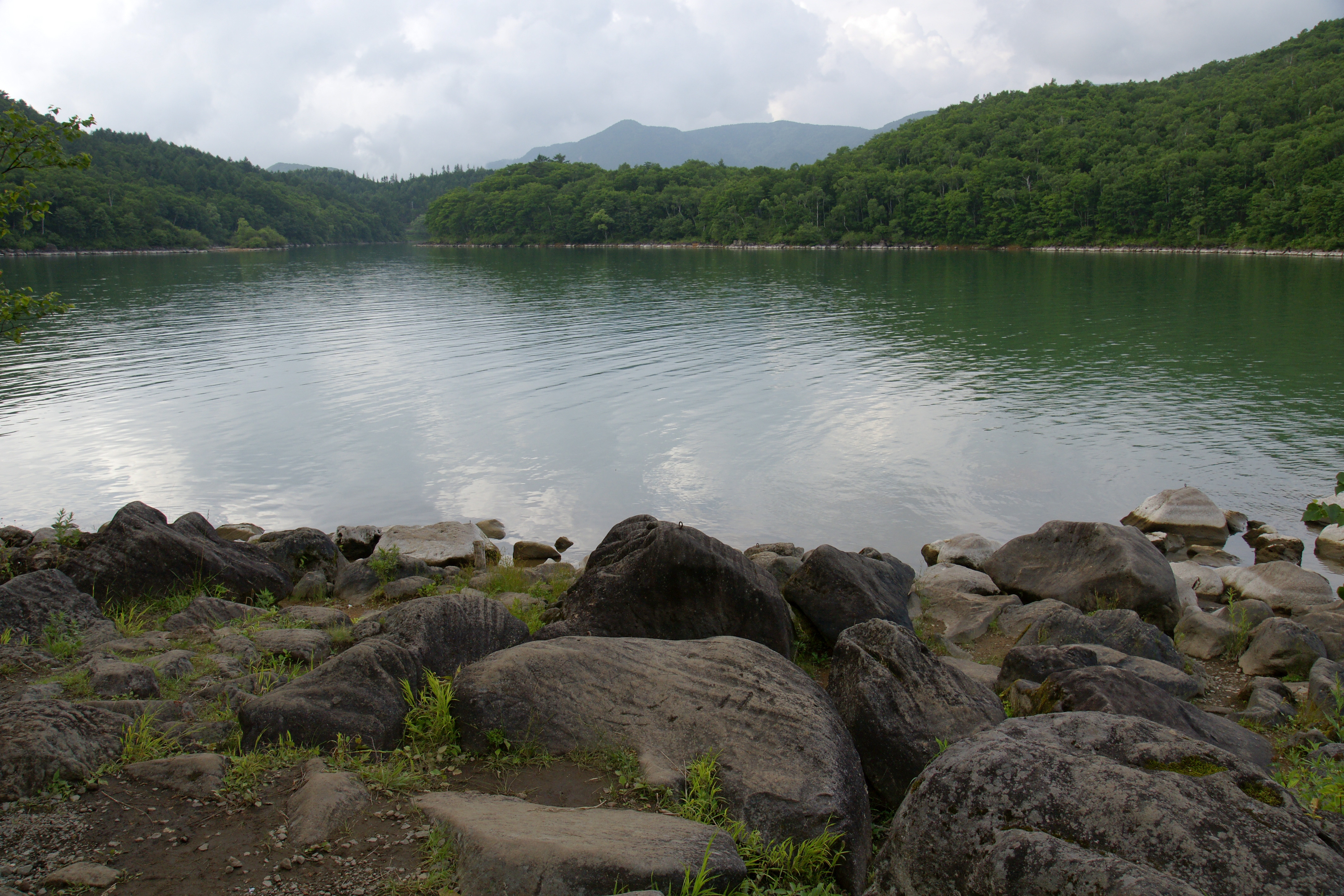 Biwa-ike of Shiga Kogen, Yamanouchi, Nagano prefecture, Japan